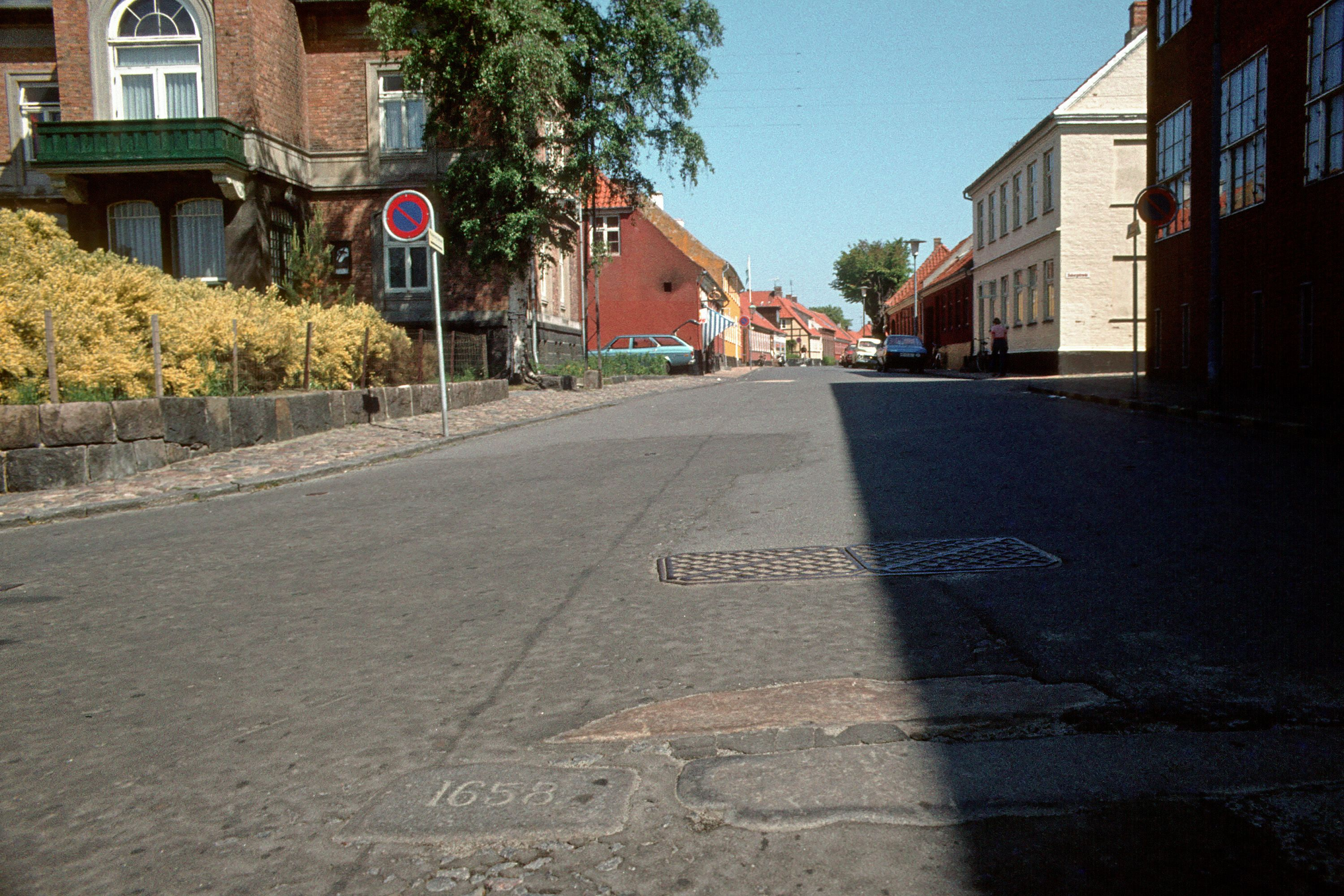 Printzenskoeldstone in the Storegade in Rønne